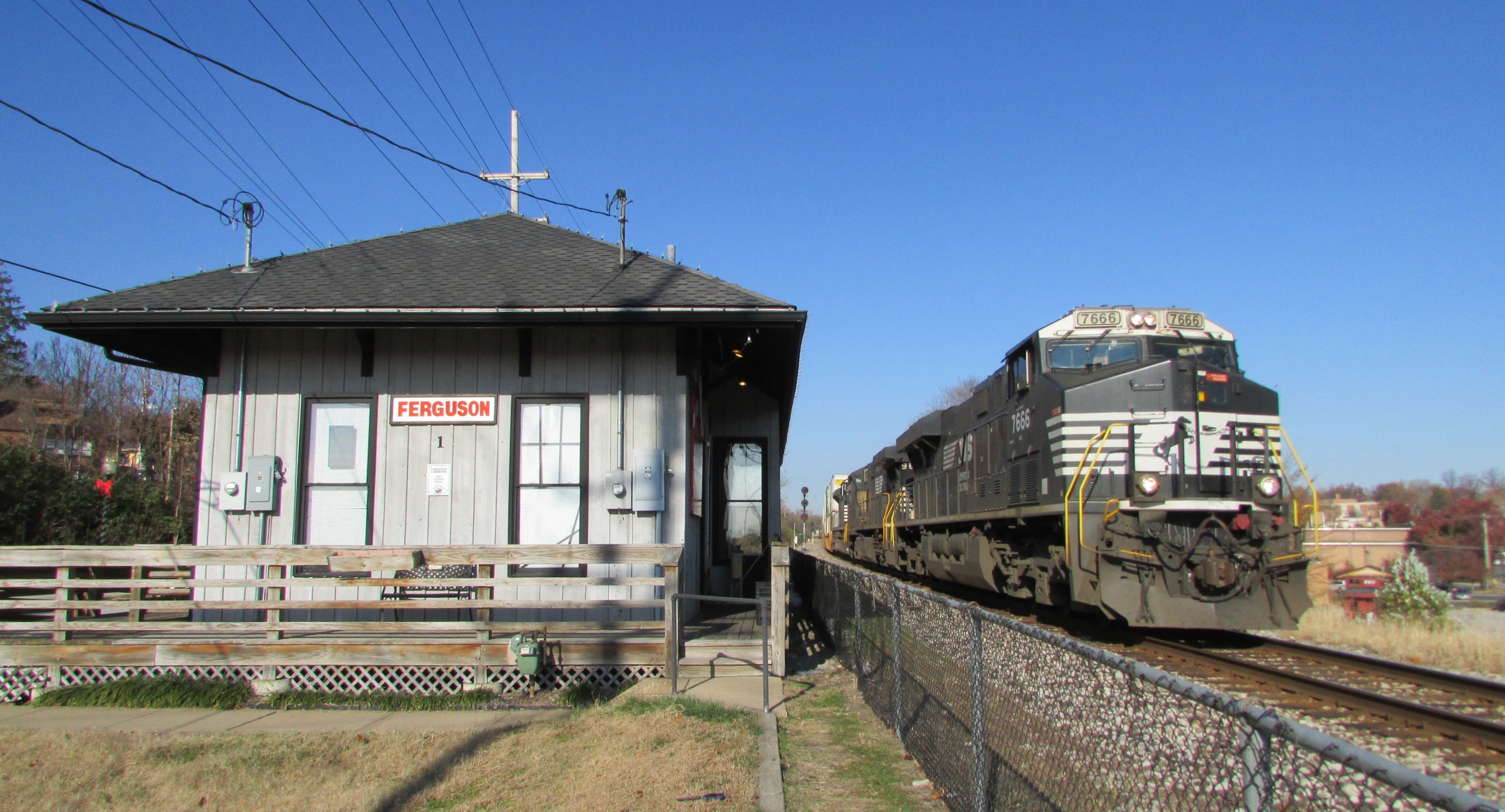 A train rolls past the former Wabash train station (now Ice cream Parlor) in Ferguson, MO. The train is Norfolk southern's Train #285 on the railroad's St. Louis District which runs from St. Louis to Moberly, MO.